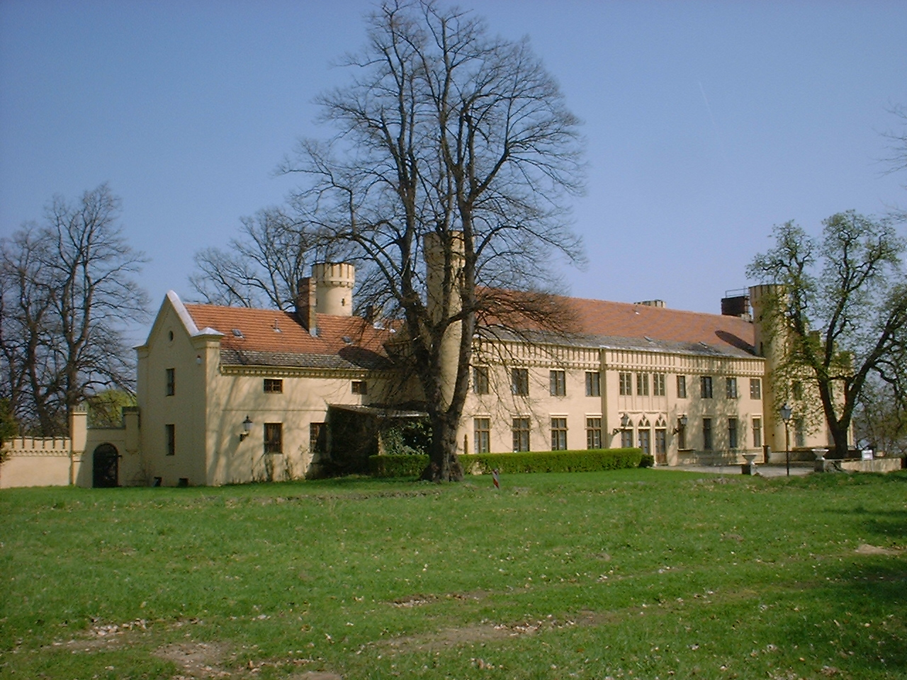 Petzow Castle in Werder-Petzow in Brandenburg, Germany